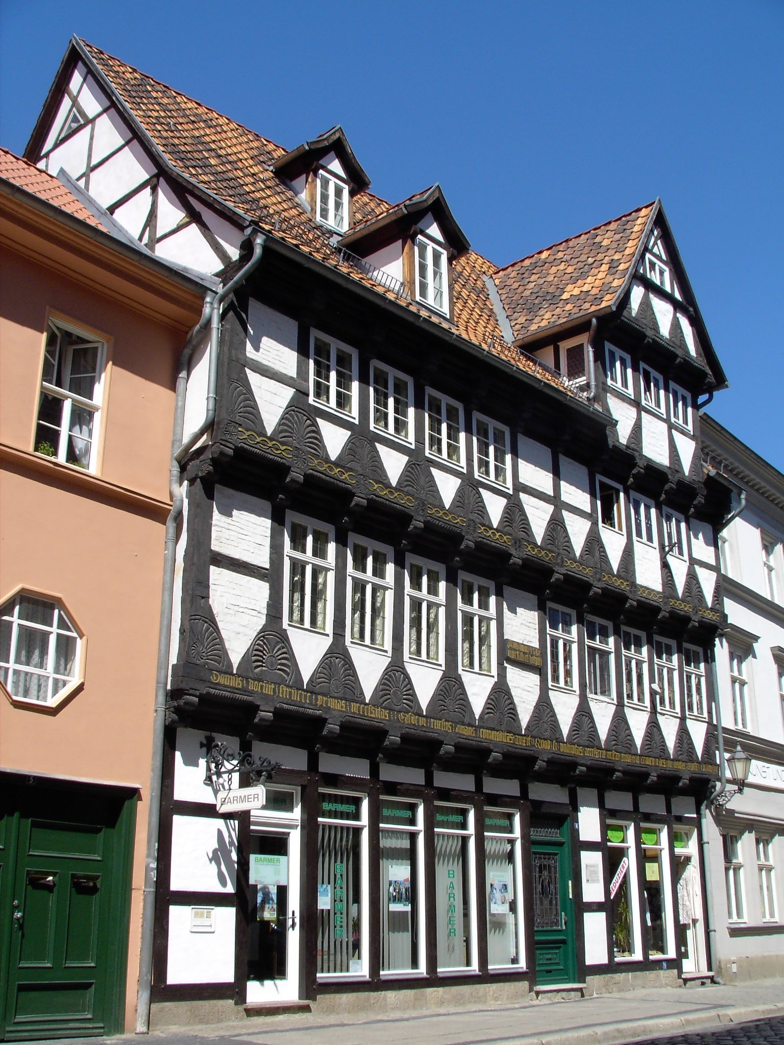 half-timbred house Marktstraße 6 in Quedlinburg (Germany)